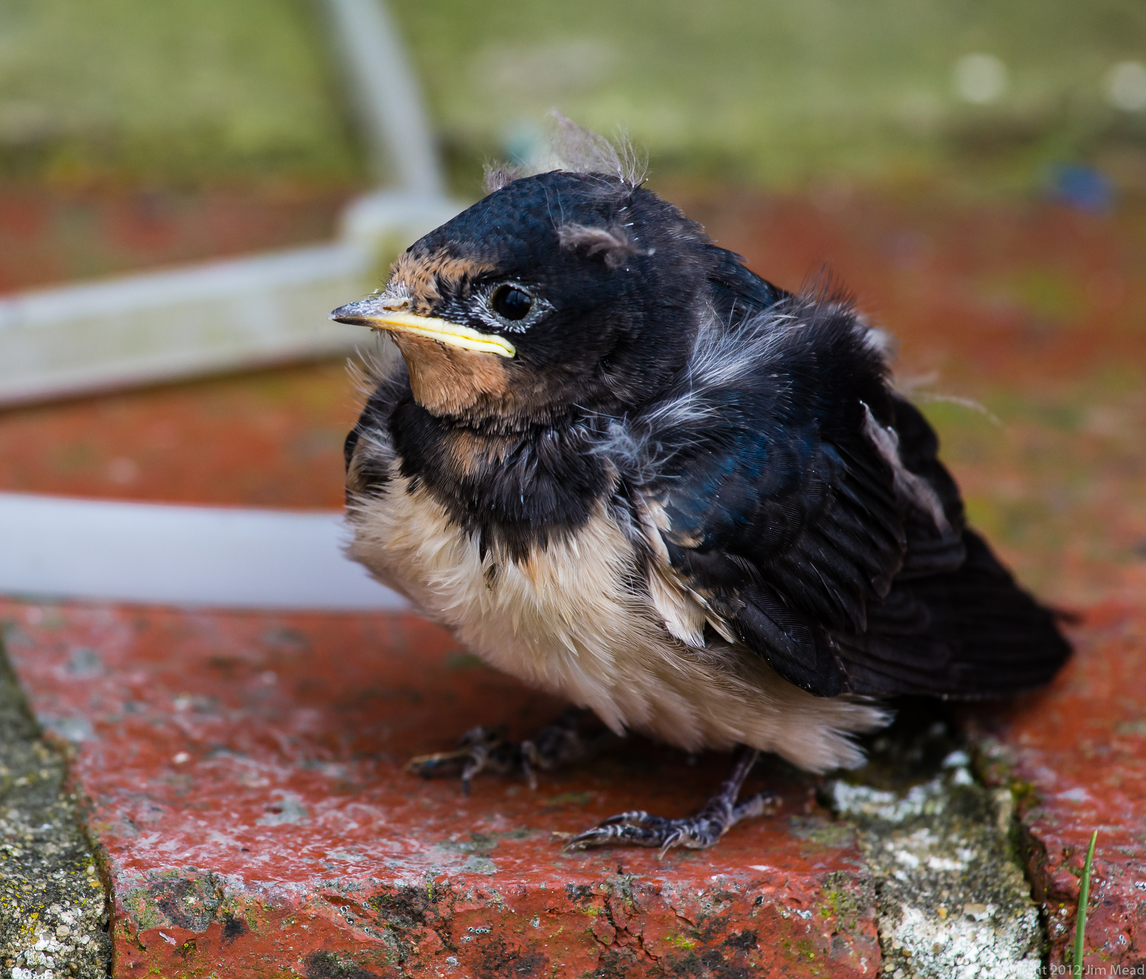 A young Barn Swallow in West Sussex, England.